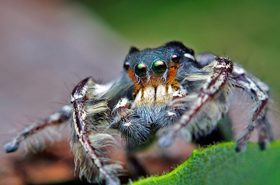 Photo of an adult male Phidippus putnami jumping spider.